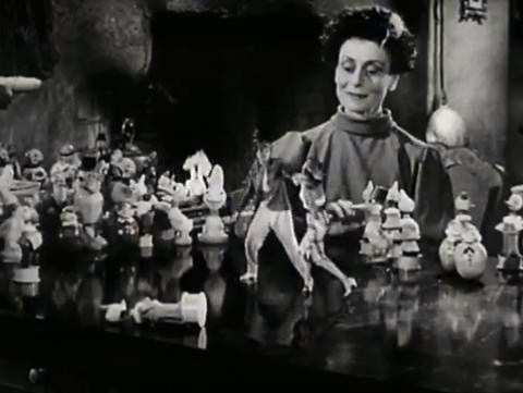 Rafaela Ottiano in The Devil-Doll - trailer (cropped screenshot)